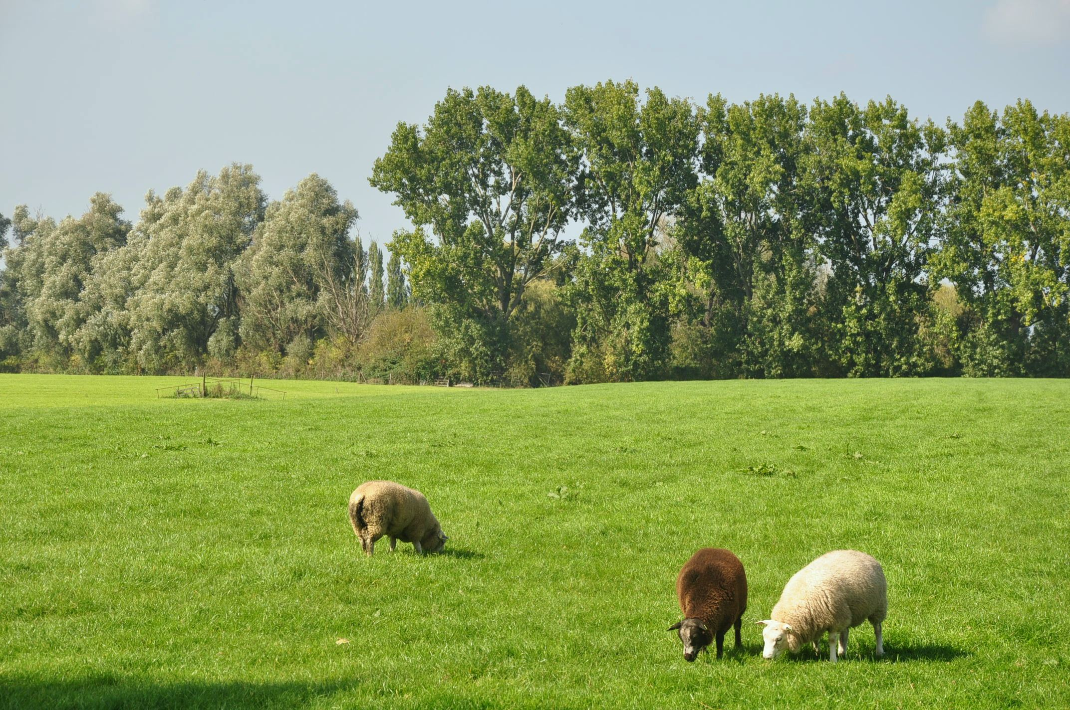 The Roeleveen polder area in the municipality Zoetermeer (Province South Holland, Netherlands) is part of the "Polder of Nootdorp". This area will be converted into a golf course according to Zoetermeer's land-use plan.